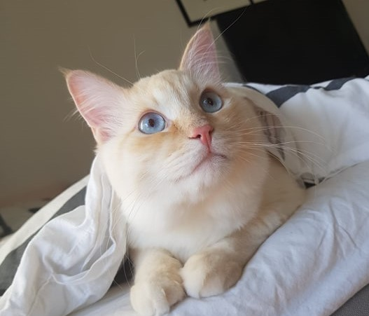 En bild på en crememaskad Neva masquerade.